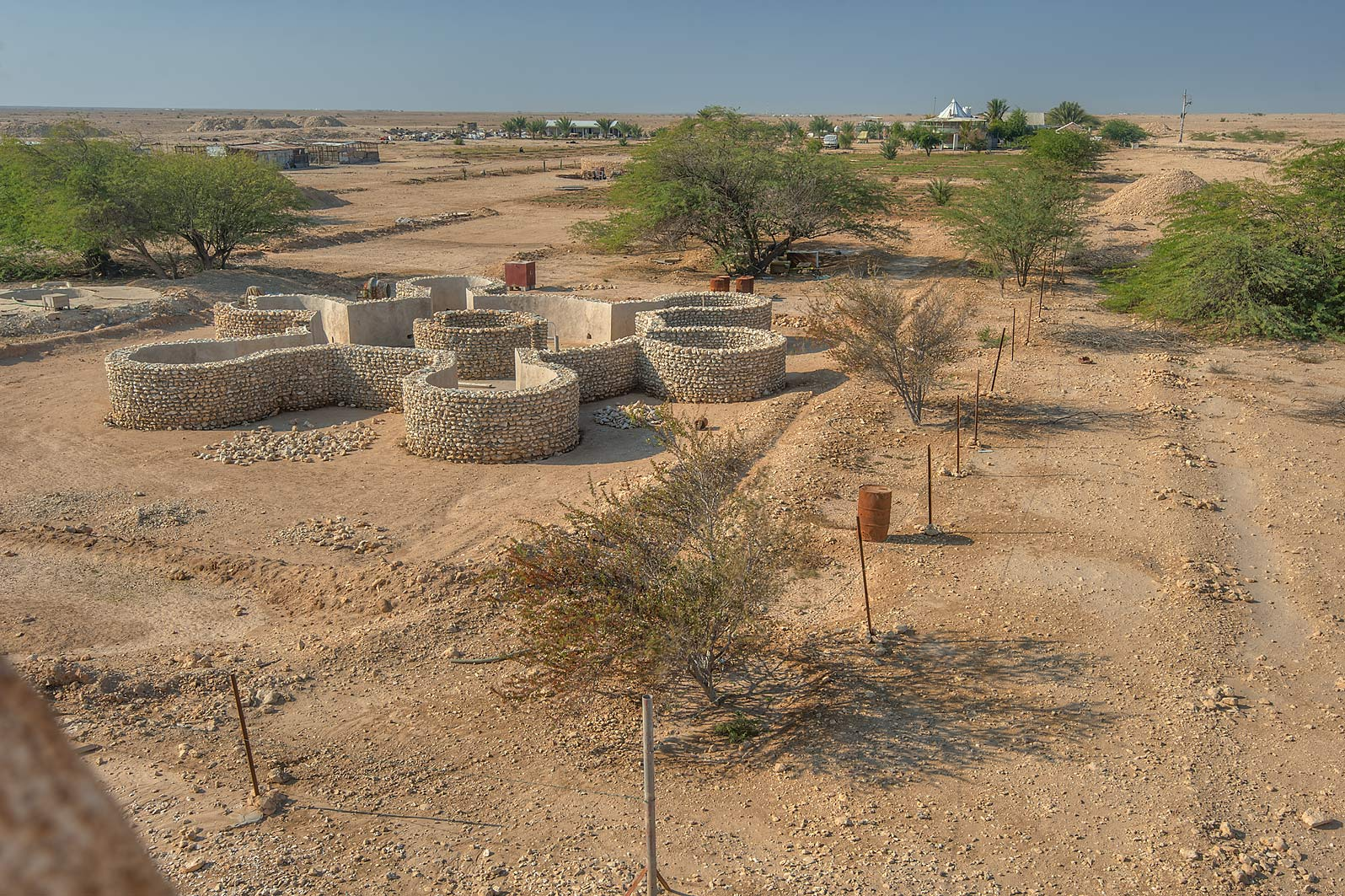 Farms in Al Thaqab, view from Al Thaqab Fort, northern Qatar.